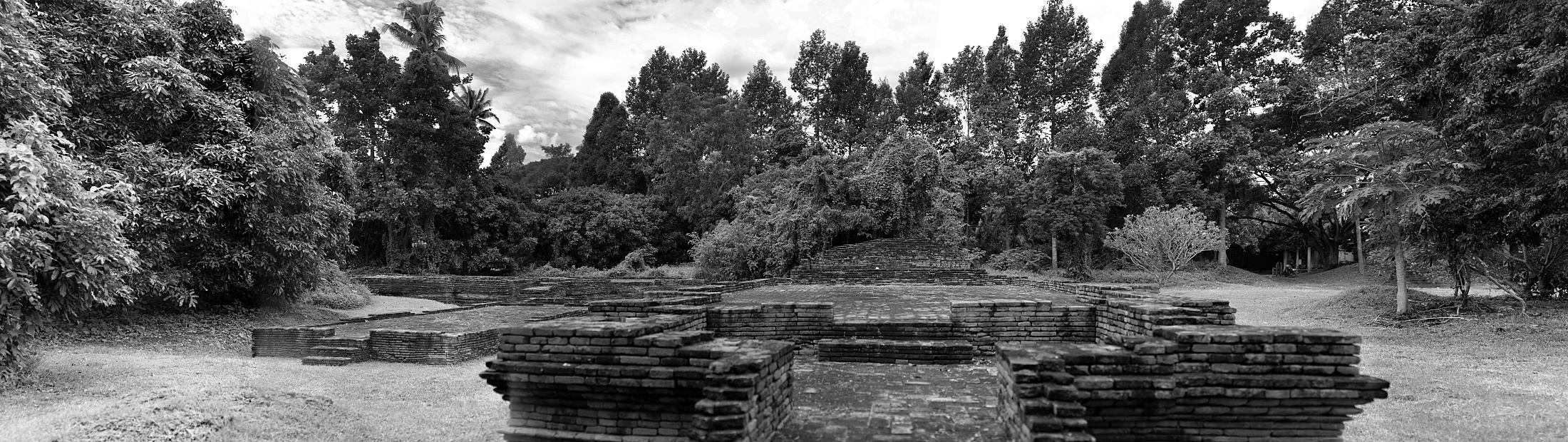 View from the north of the ruins of Wat Phaya Mangrai, part of the Wiang Kum Kam archaeological site just south of Chiang Mai in northern Thailand.